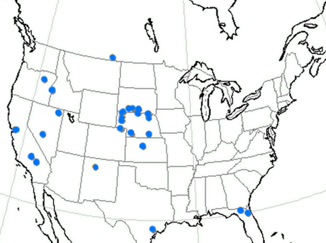 Range map for Leptocyon